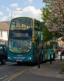 Arriva Fox County 4767 (YJ56 KFA), a VDL DB250/Wright Pulsar Gemini, on Wilton Road, Melton Mowbray, on route 5A to Leicester. The entrance in the foreground used to lead to the now demolished Barton bus garage - the site is currently in use as a car park.